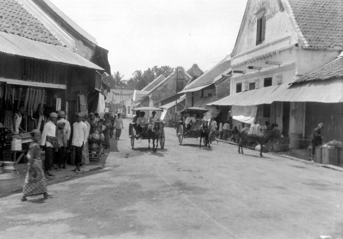 Street